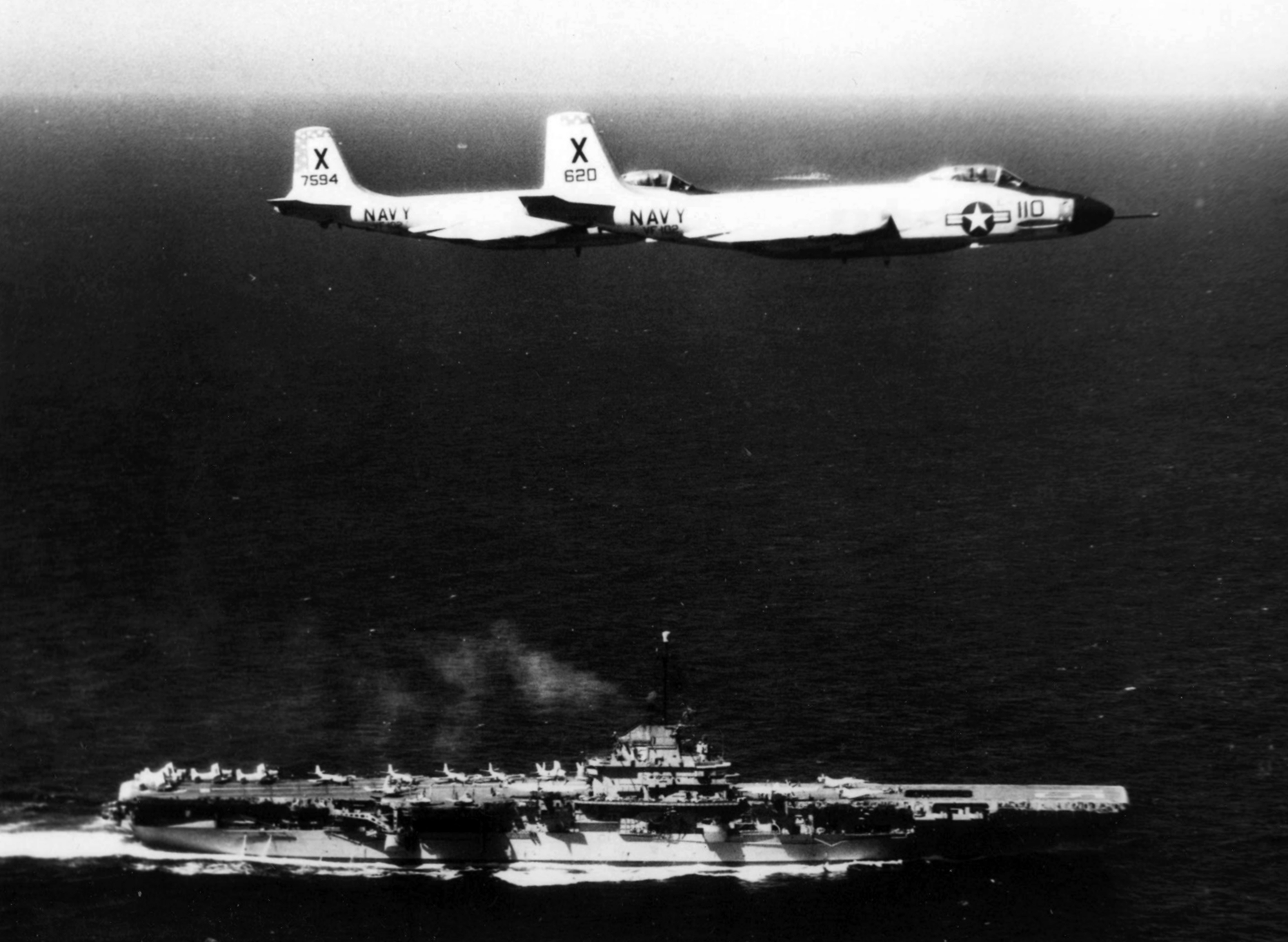 Two U.S. Navy McDonnell F2H-4 Banshee fighters (BuNo 127594, 127620) from Fighter Squadron VF-102 Diamondbacks in flight above their parent aircraft carrier USS Randolph (CVA-15) in 1956. VF-102 was assigned to Air Task Group 202 (ATG-202) for a deployment to the Mediterranean Sea from 14 July 1956 to 19 February 1957.